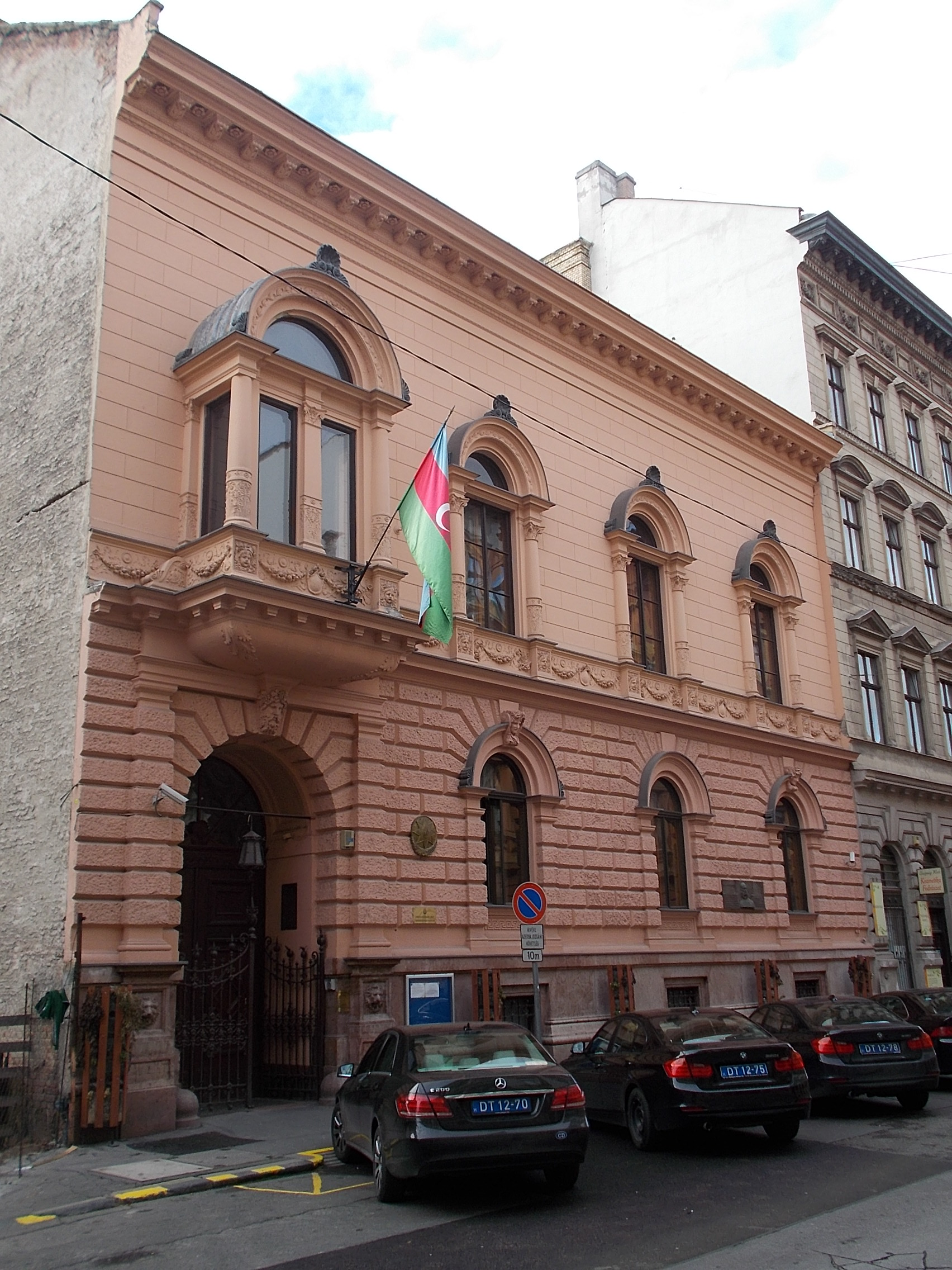 Azerbaijani Embassy (Azərbaycan səfirliyi), Podmaniczky mansion. - 14 Eötvös Street, Budapest District VI. Hungary.